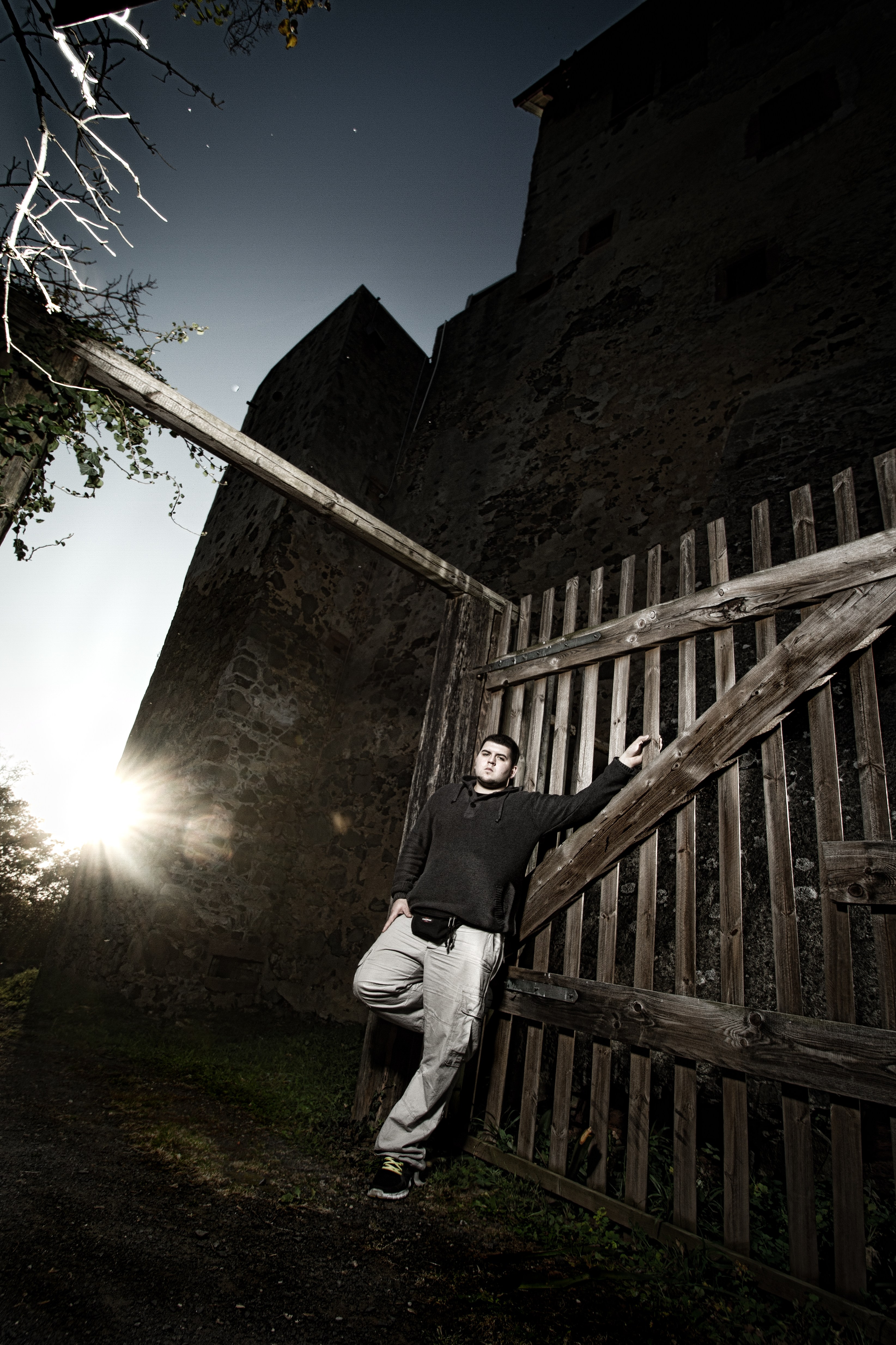 Pressefoto des Rappers Vega